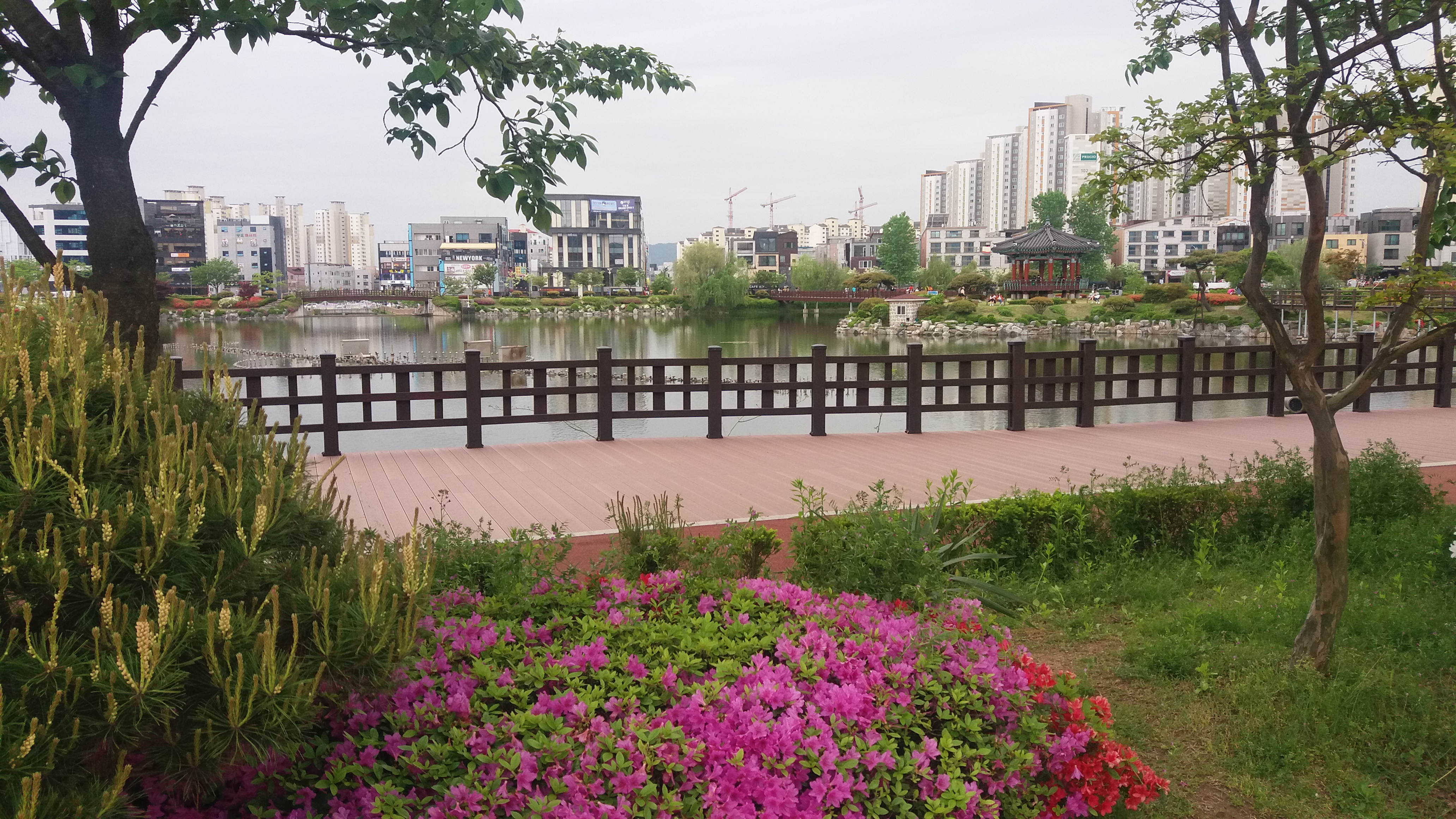 Lake Park